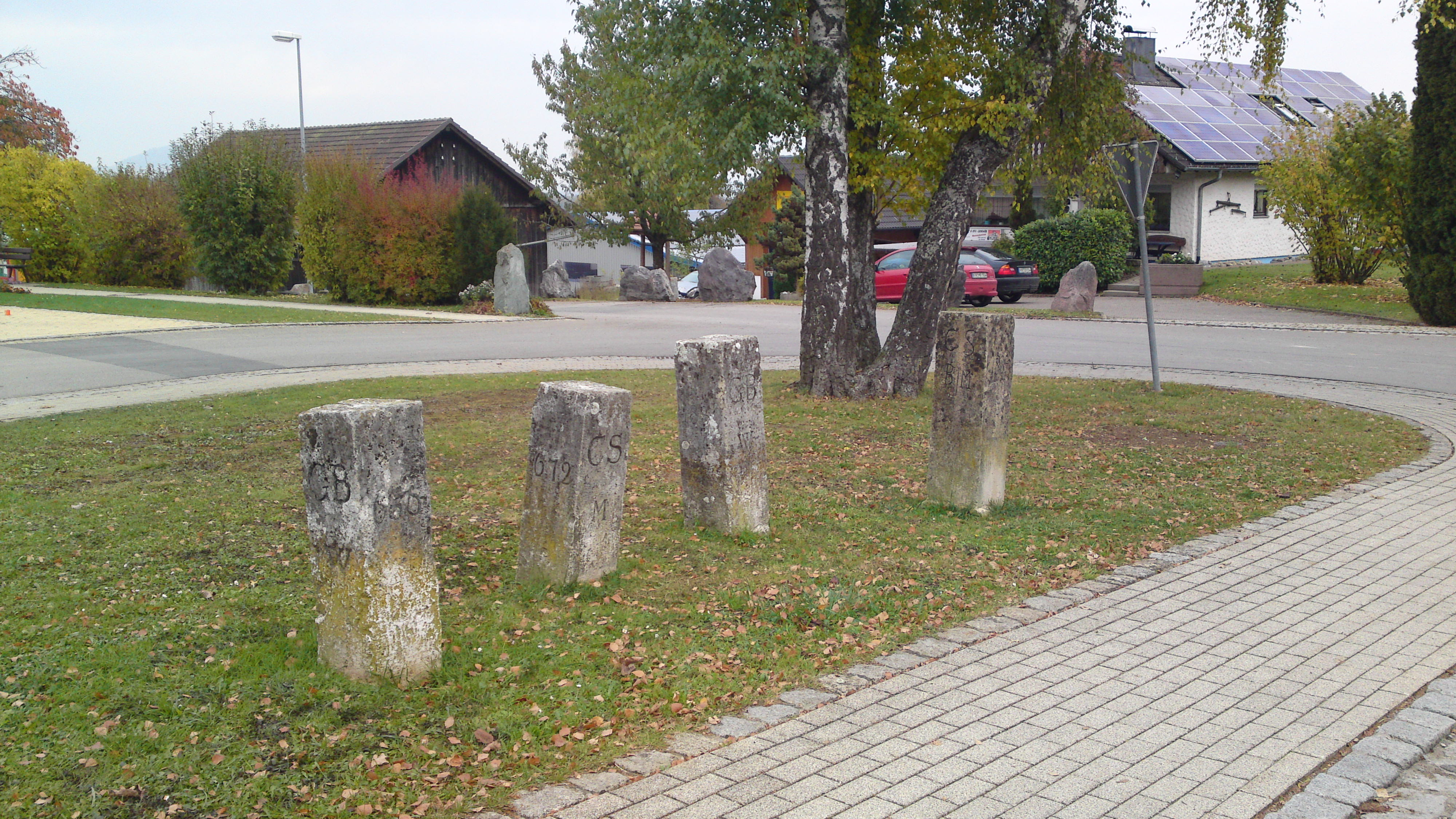 Decommissioned landmarks in Wiechs am Randen